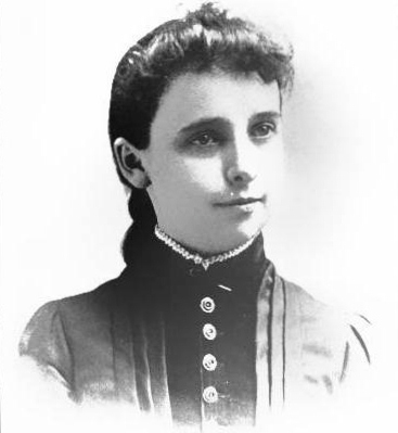 Elizabeth Freeman Barrows was a witness to the Armenian Genocide